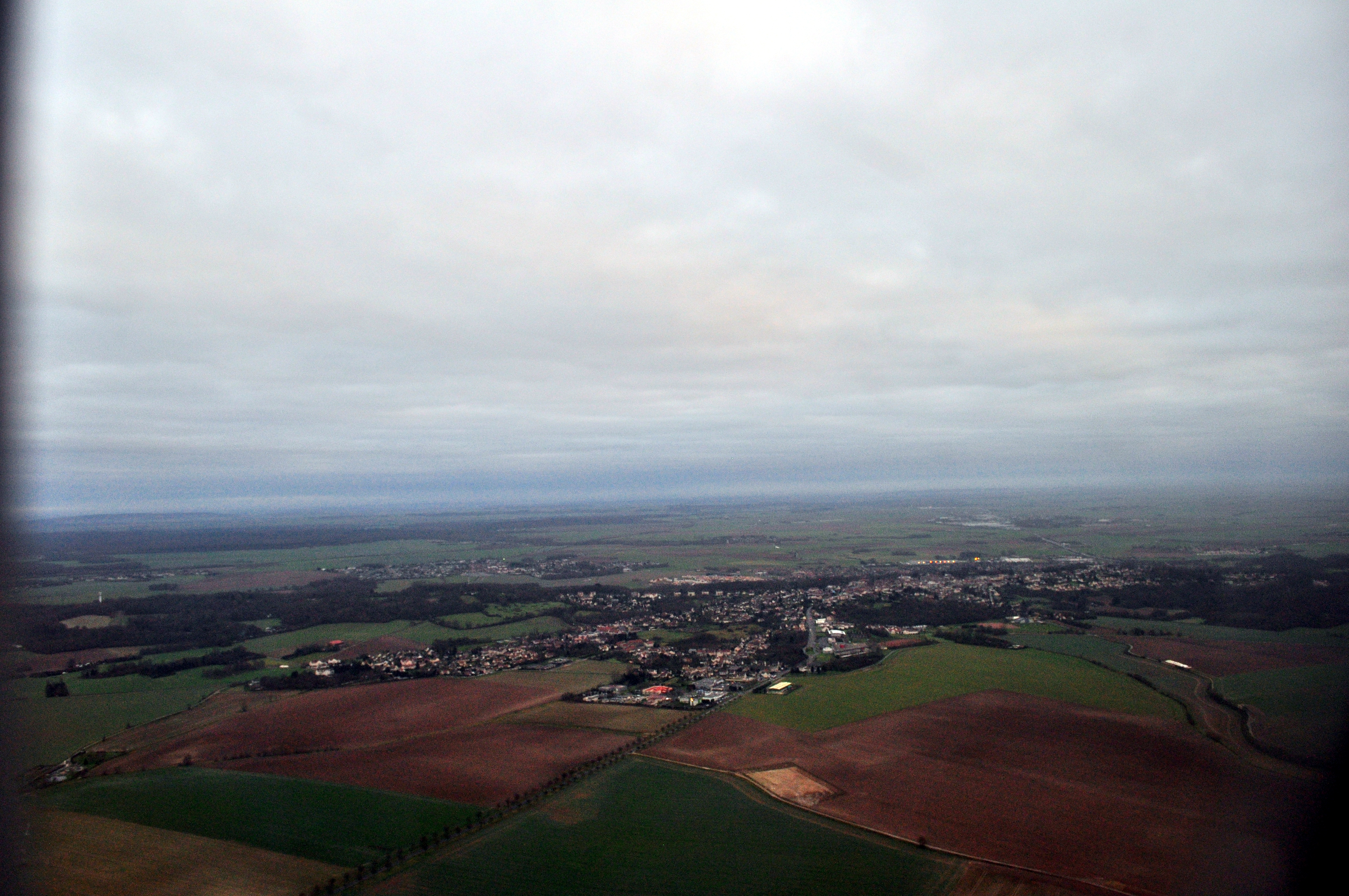 Aerial photograph of Longperrier, Seine-et-Marne, France.